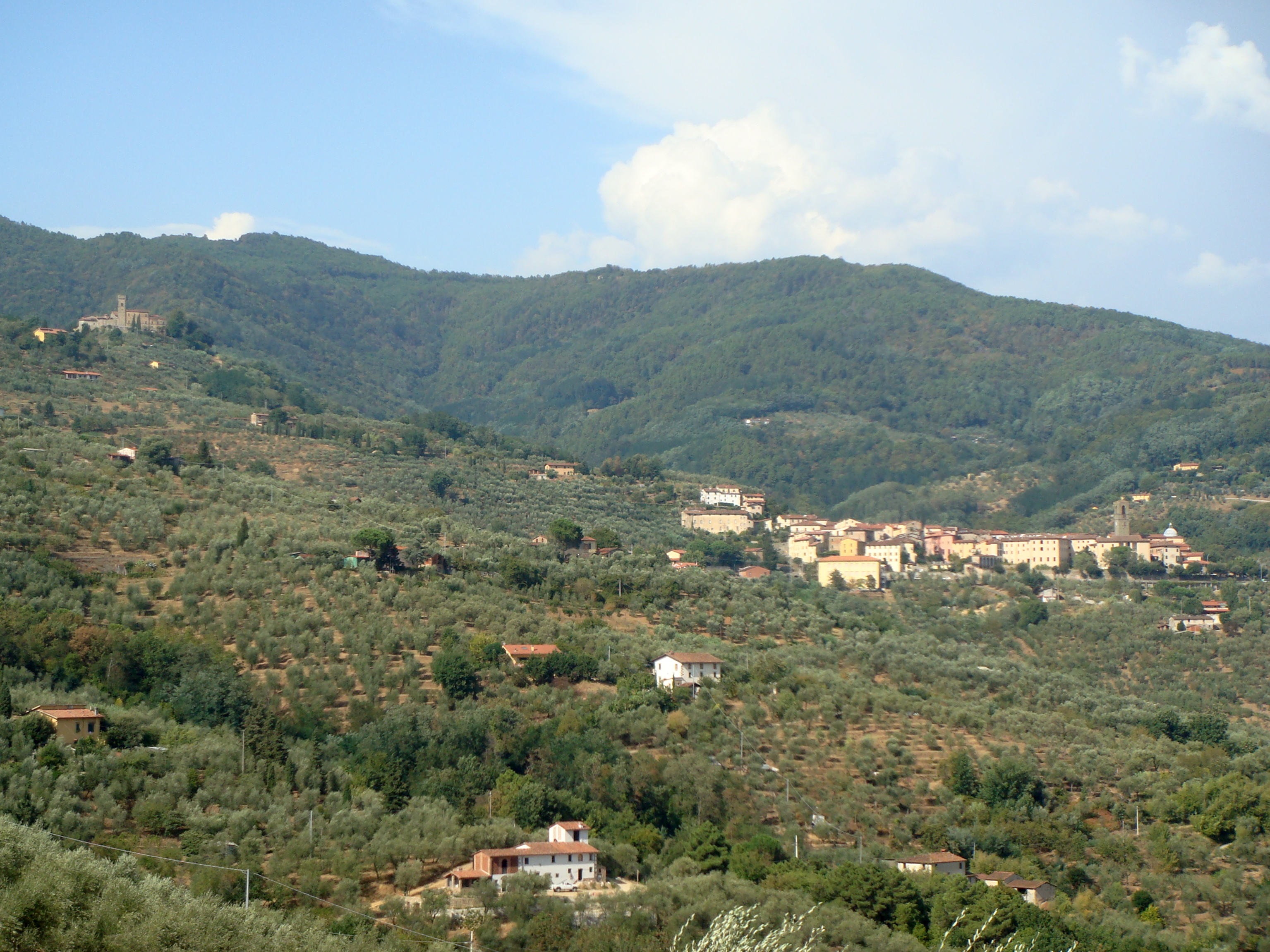 Panorama of Massa and Cozzile taken from Colle di Buggiano